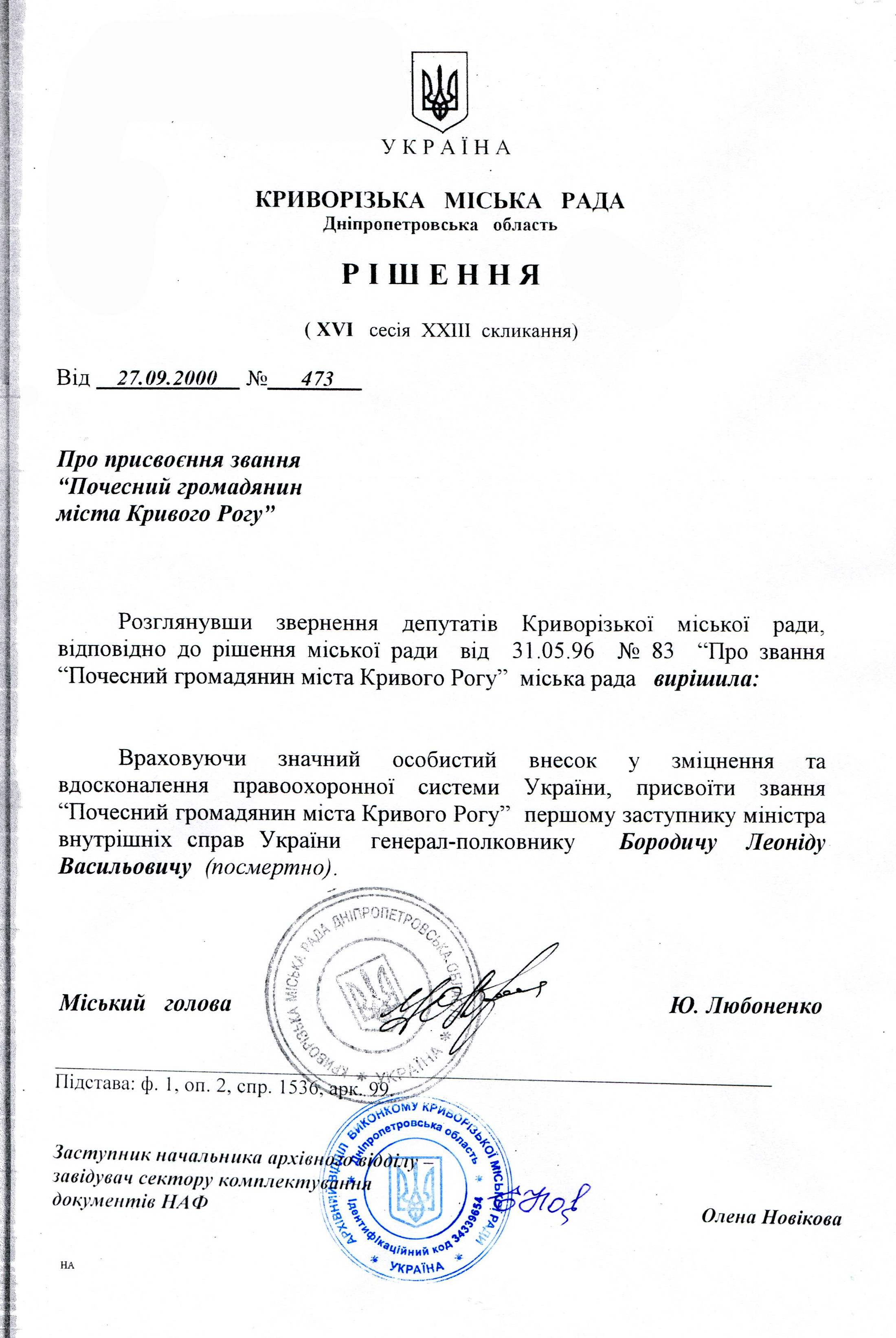 Kriviy Rih City Council Decree, 2000-09-27 No. 473 (about conferring an honorary citizen to Leonid Borodych)